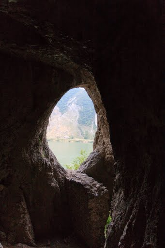 the Gaura cu Muscă cave near Coronini village, on the Danube's side